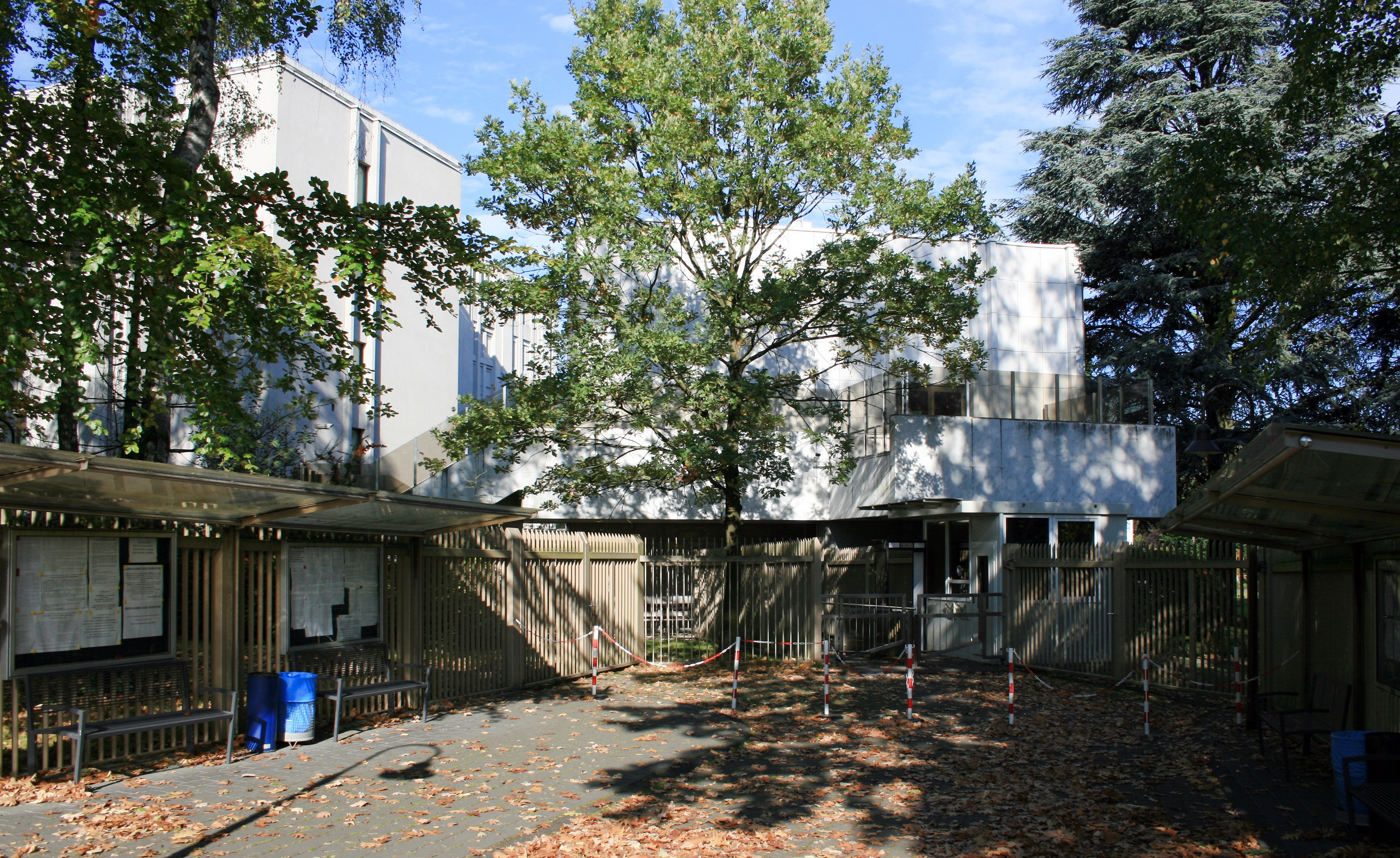 One of several entrances to the Consulate General of the Russian Federation in Bonn/Germany. The area is located on "Viktorshöhe", a height in Bonn-Bad Godesberg, area Schweinheim (53177 Bonn, Waldstrasse 42). 1949/1950 there was the official residence of the first President of the Federal Republic of Germany, Theodor Heuss. From 1976 to 1991 the area was used by the Soviet (and from 1991 to 1999, Russian) Embassy.